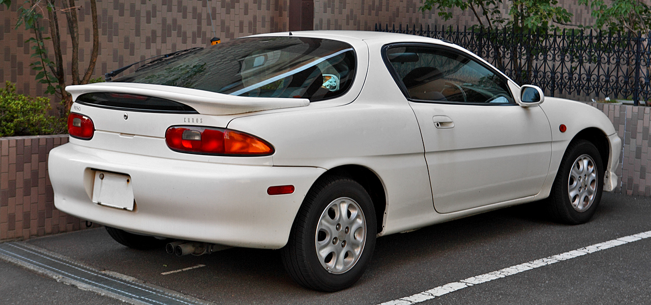 Eunos Presso by Mazda